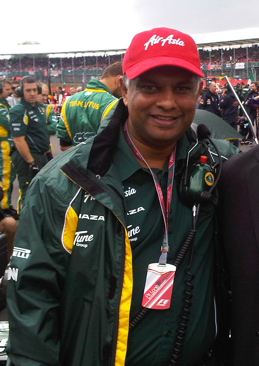 Cropped version File:Tony Fernandes and Russ Fujioka.jpg